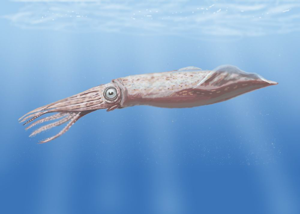 Tusoteuthis longa, by D.Bogdanov